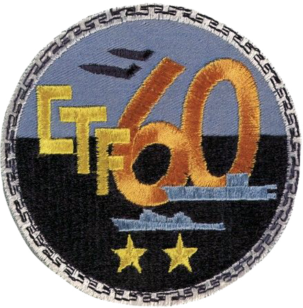 Insignia of the U.S. Navy Commander, Task Force 60 (CTF 60), United States Sixth Fleet, in 1977.